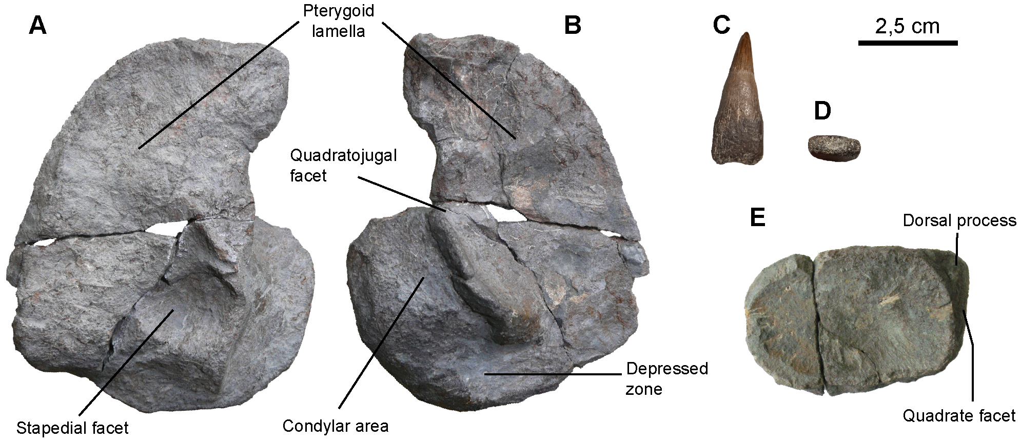 Sisteronia seeleyi, quadrate, tooth and articular. A, B: right quadrate (RGHP SI 2) in medial (A) and lateral (B) views. C, D: typical mid-rostrum tooth of Sisteronia seeleyi (CAMSM TN1779 partim) in labial view (C) and basal (D) views, showing the markedly rectangular cross-section of the root. E: right articular (RGHP SI 2) in lateral view.